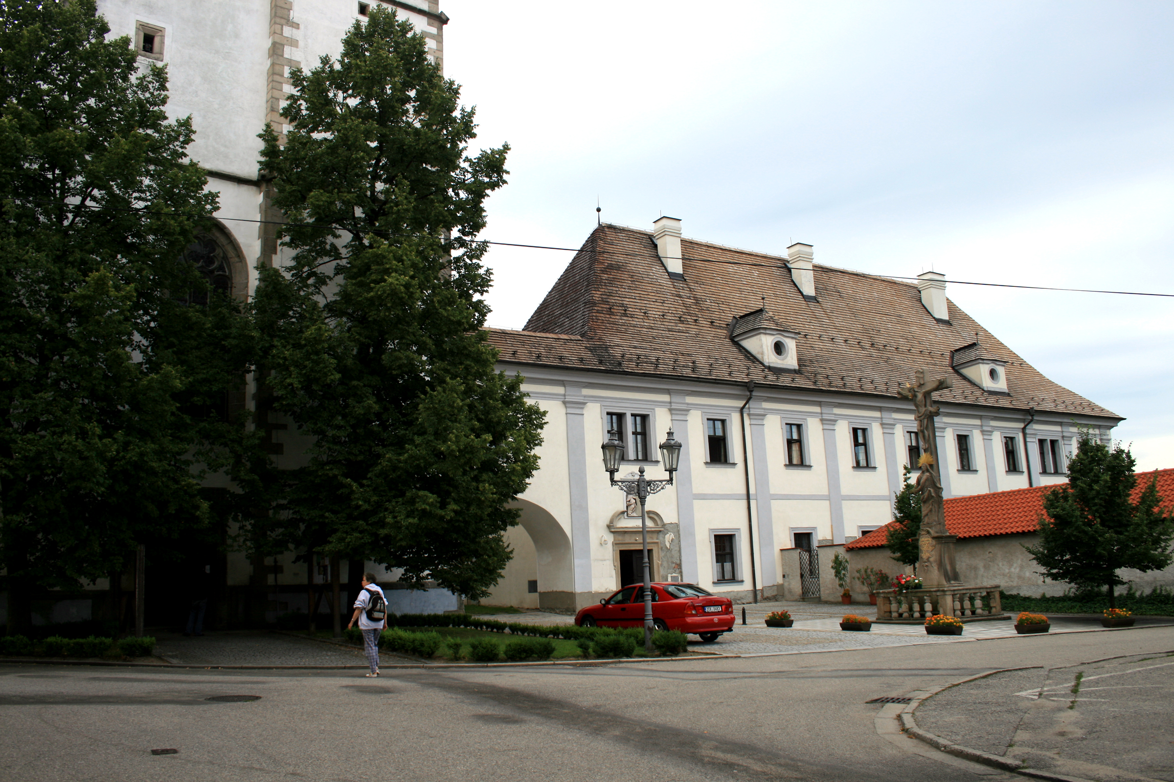 Servite monastery near Church of Petr and Paul in Nové Hrady, South Bohemia, Czech Republic